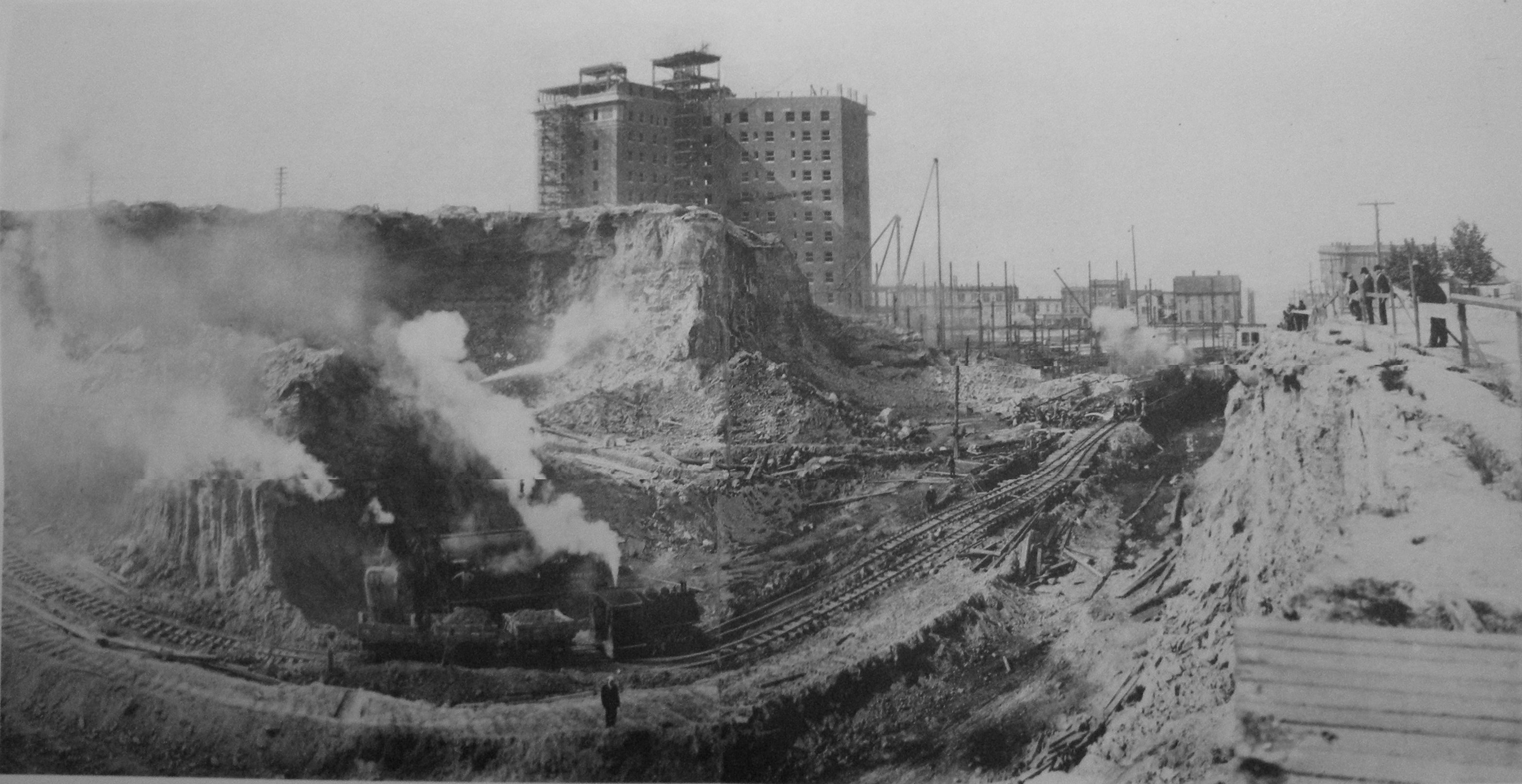 "Leveling the Hills of Seattle to Build Skyscrapers". The skyscraper in the photo was originally known as the New Washington Hotel and still stands, as the Josephinum, 1902 Second Avenue, Seattle, Washington. The building is listed as a city landmark and on the National Register of Historic Places, ID #89001607. It is now subsidized housing. The regrade in progress here would be one of the many in the slow process of removing Denny Hill and creating the landscape of today's Belltown and Denny Regrade. The view here appears to be roughly SSW from what would now be somewhere between 3rd and 4th Avenues on Virginia Street.